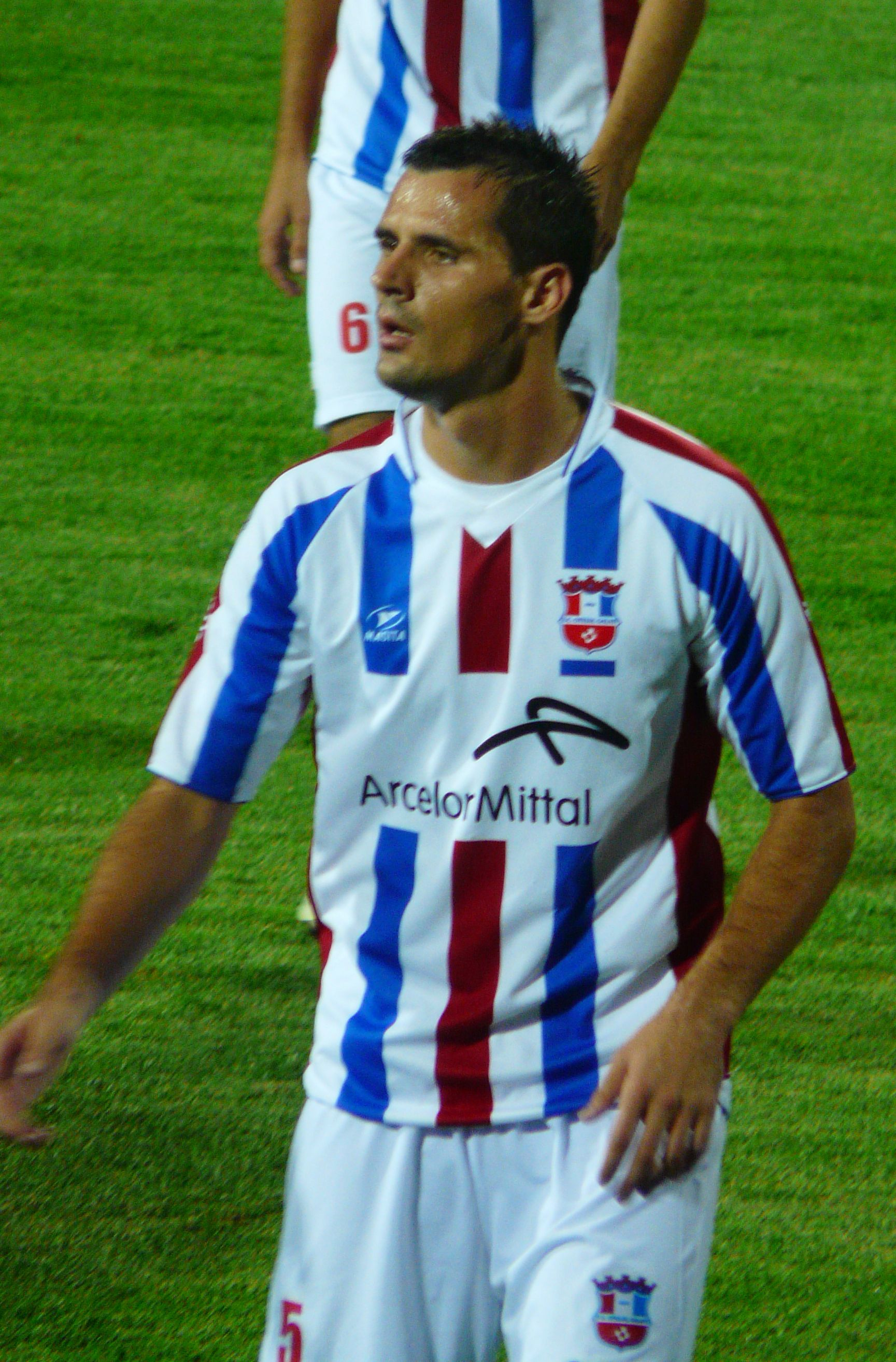 Zoran Ljubinković in September 2011, during Otelul - Oltchim